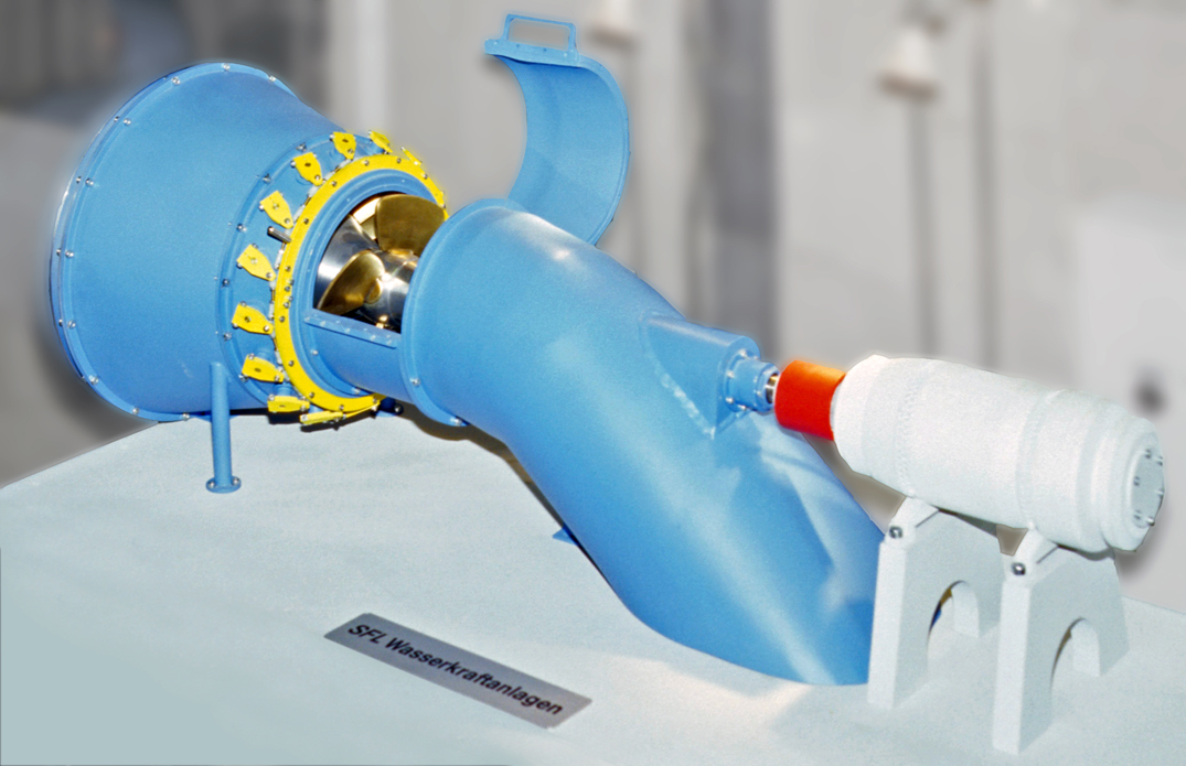 A model of a horizontal Kaplan turbine (back)